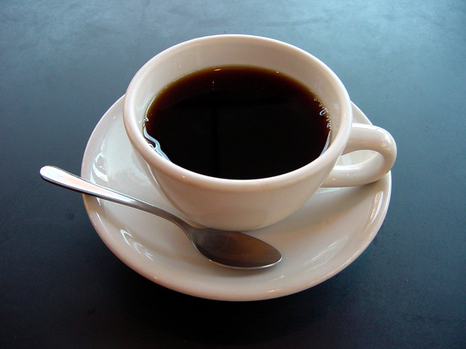 A photo of a cup of coffee.